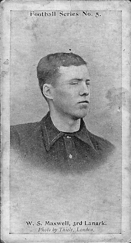 W.S. Maxwell of Third Lanark A.C. football team, picture by Wills's cigarette cards.